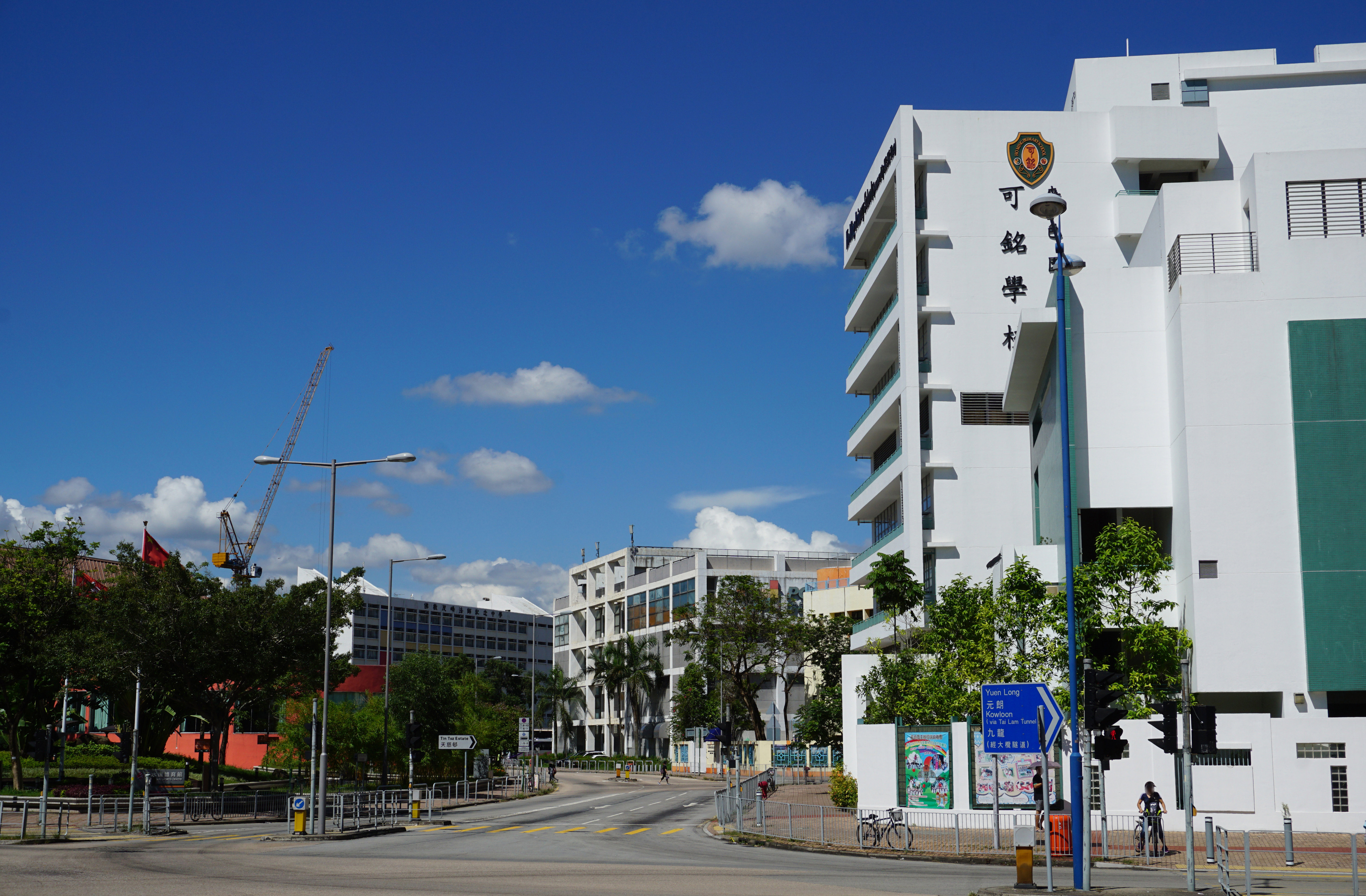 Tin Pak Road in Tin Shui Wai, Hong Kong.